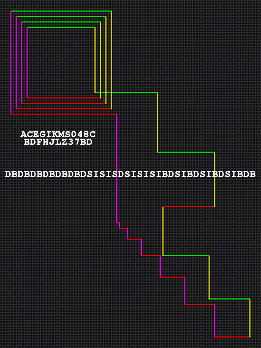 The golygon includes in the image the sequence used for its drawing, as well as the sequences (Right (D) and Below (B) , from which it is deduced Left (I) and Above (S)) used before its conversion to orders. Legend: D = Right, B= Down, I= Left, S= Up